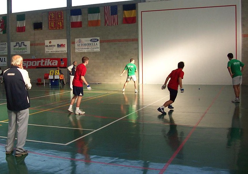 Italian 2007 1-Wall Championship, Basque Country vs. England.